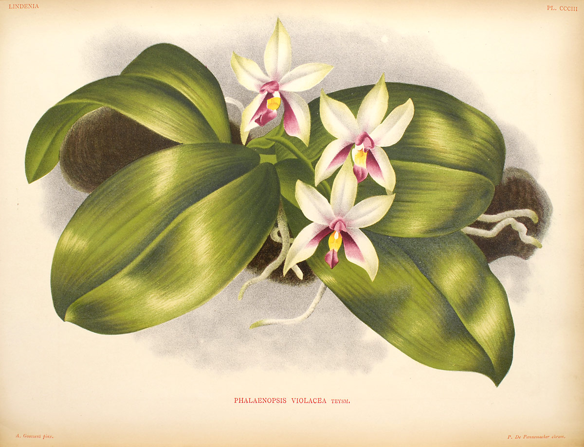 Phalaenopsis violacea